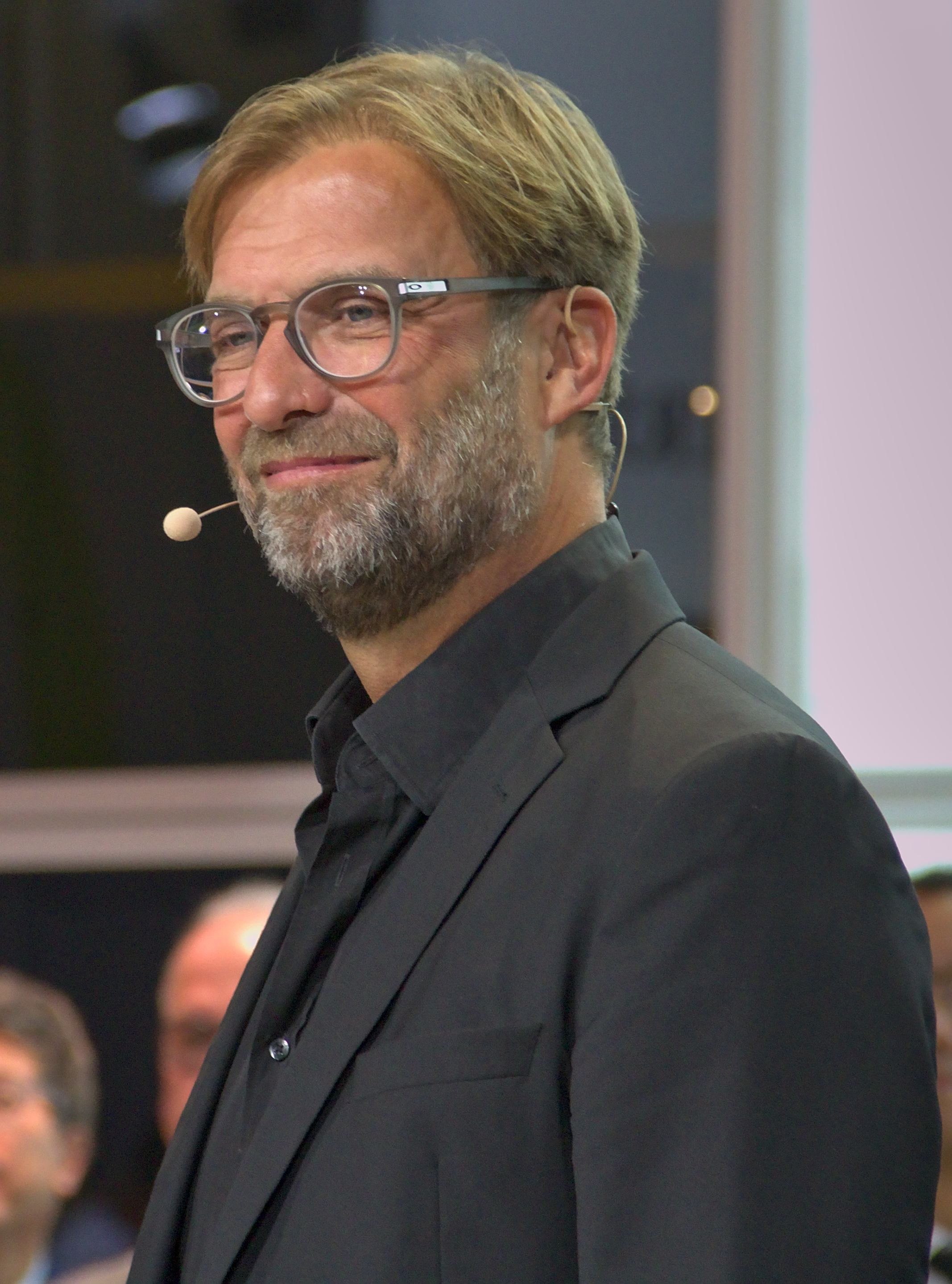 Juergen Klopp at IAA 2019